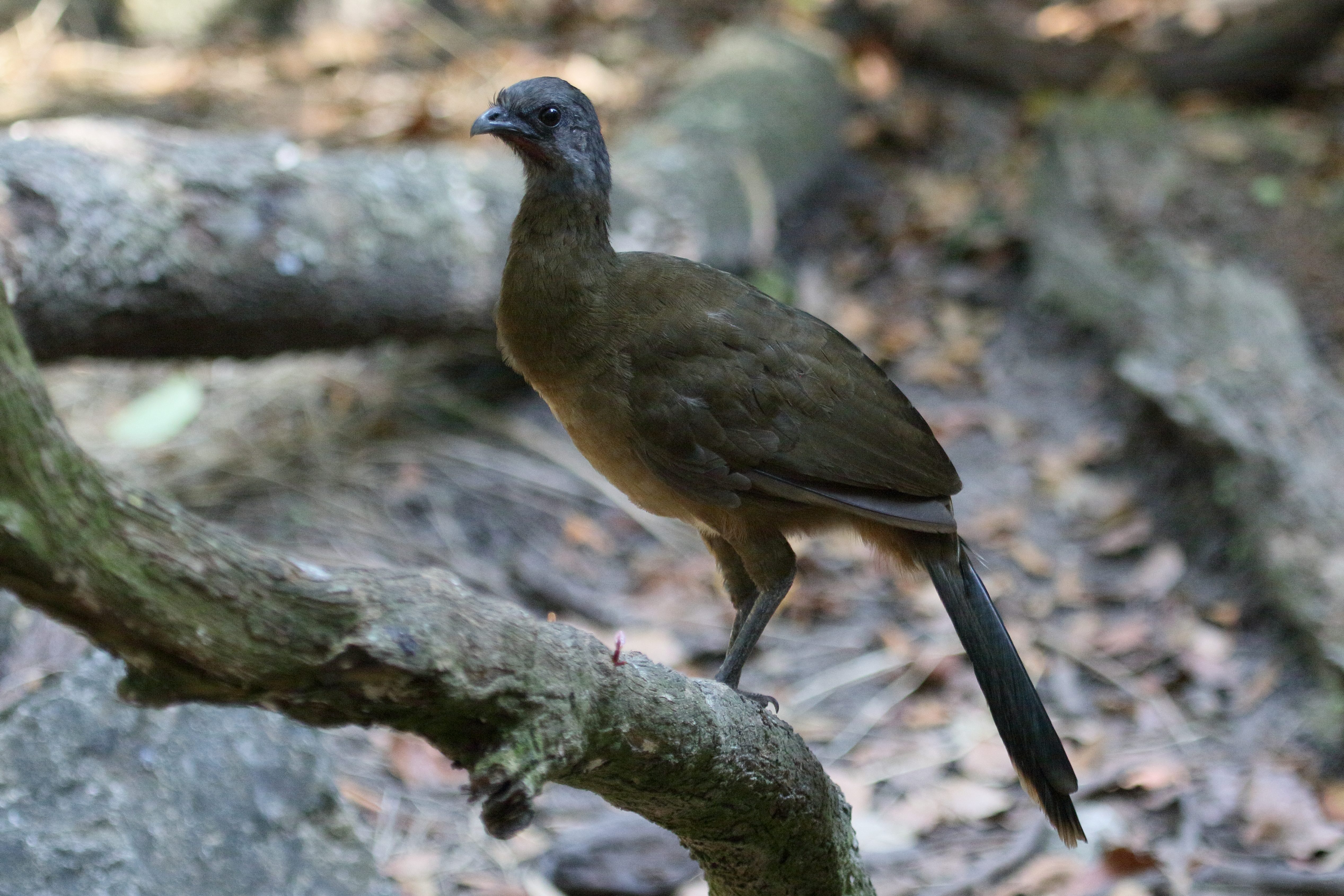 Plain chachalaca, Belize Zoo, Belize